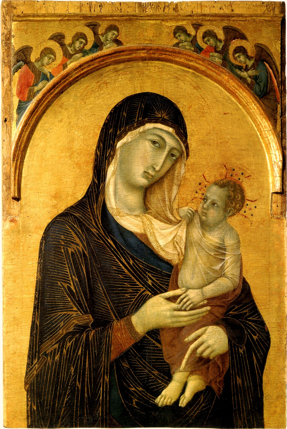 Duccio.The-Madonna-and-Child-with-Angels-137.jpg